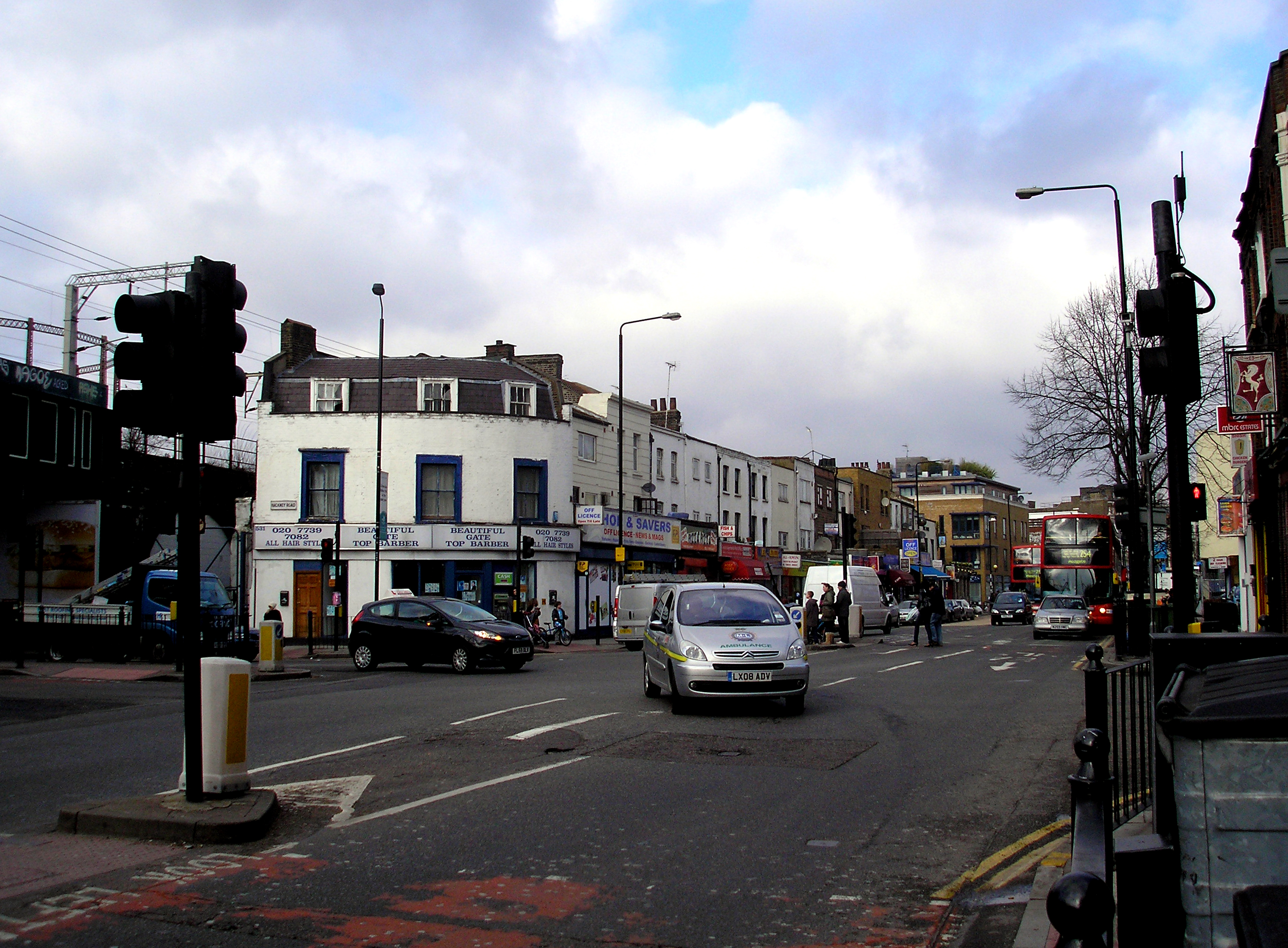 Bethnal Green: Cambridge Heath Road Looking north across the busy crossroads where Hackney Road leads off to the west and Bishop's Way goes to the east. Straight on is Cambridge Heath Road for some way until the bridge over the Regent's Canal is reached; at this point, the road, which is the A107, enters the London Borough of Hackney and changes its name to Mare Street.